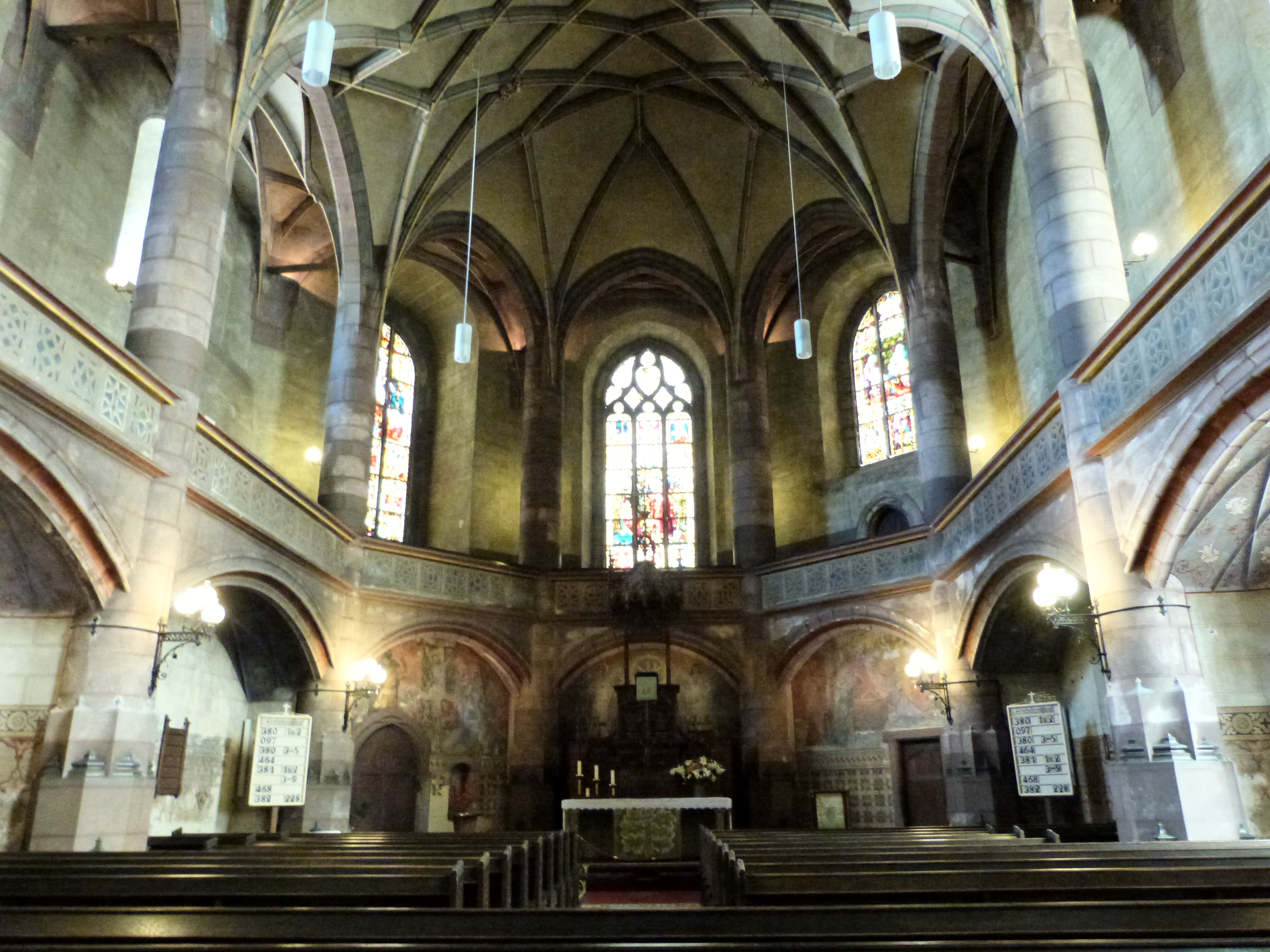 Interior of the chapel of St. Mary Magdalene in the Moritzburg, Halle (Saale)